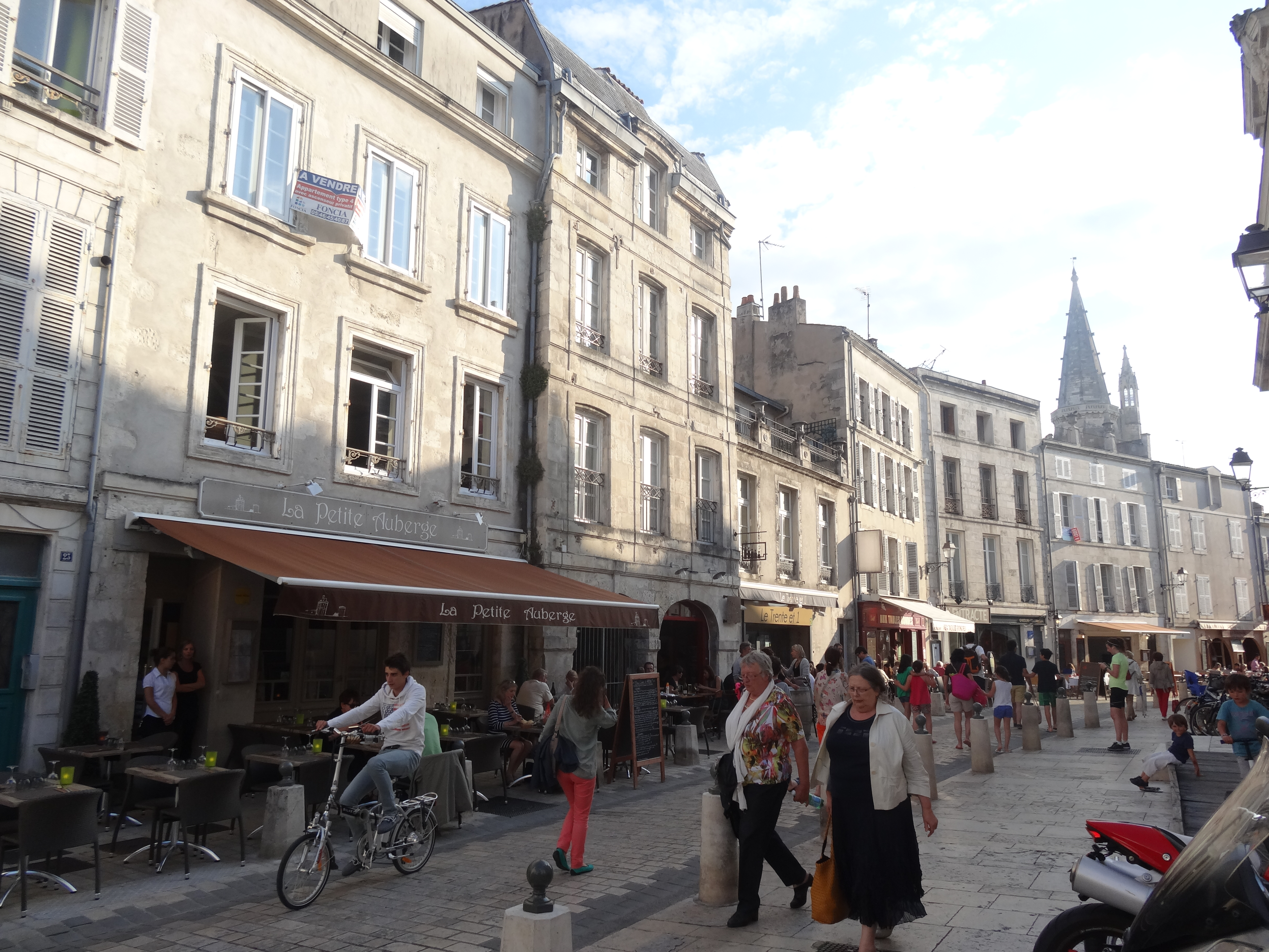 Rue Saint-Jean du Pérot, La Rochelle, France